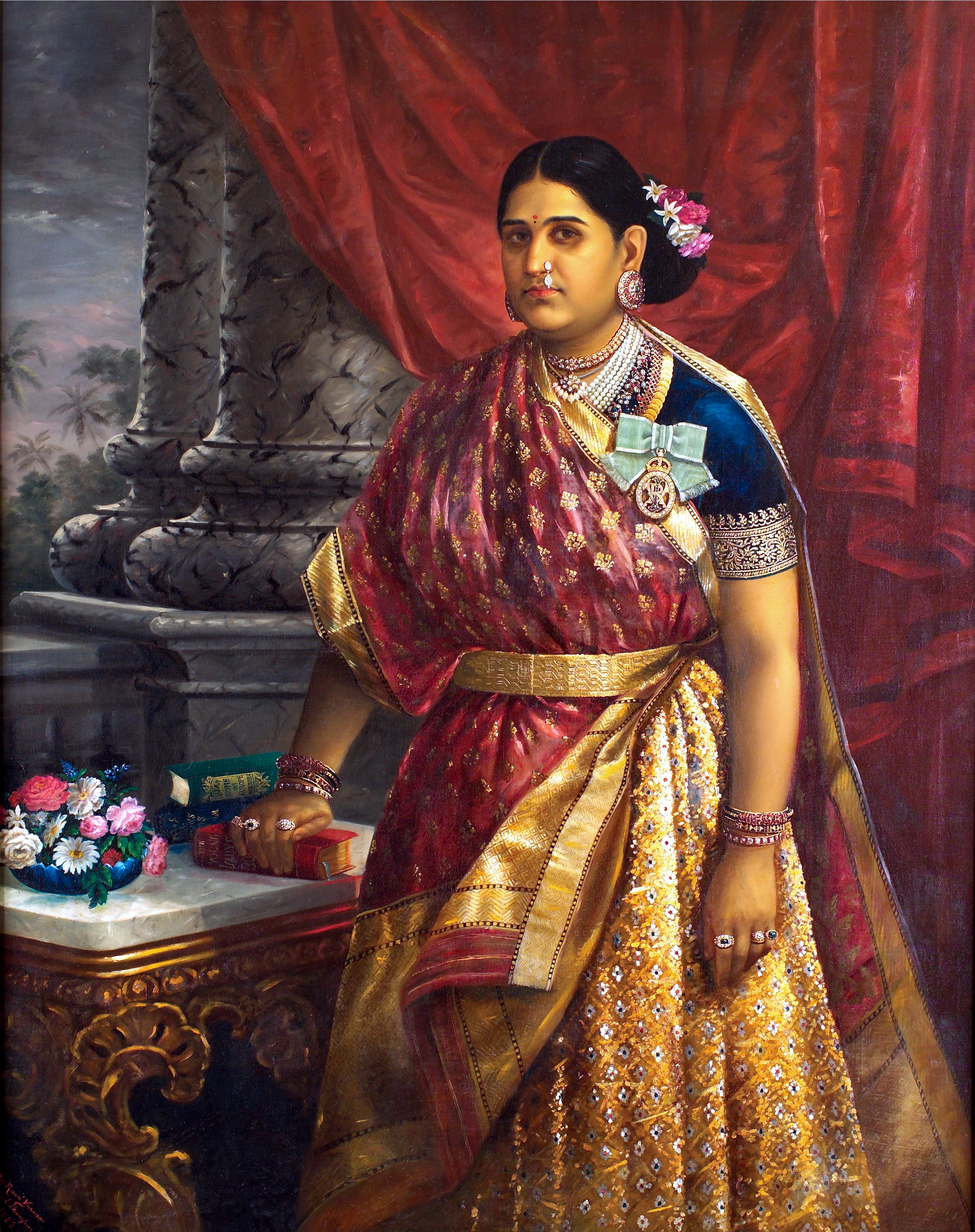 Rani Bharani Thirunal Lakshmi Bayi (1848–1901) was the Senior Rani of Travancore from 1857 till her death in 1901